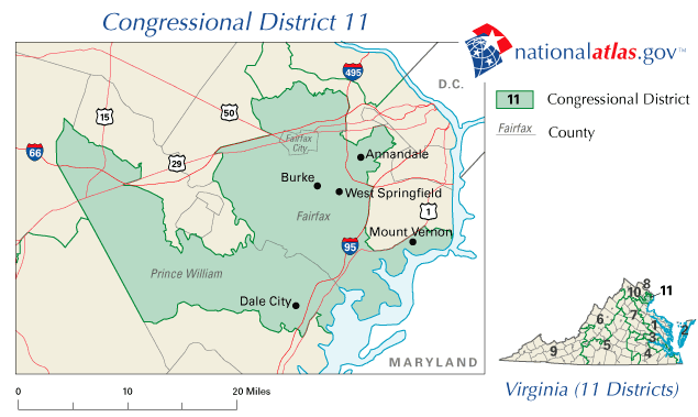 Data and information authored or produced by the USGS are in the public domain. National Atlas of the United States® and The National Atlas of the United States of America® are registered trademarks of the DOI.